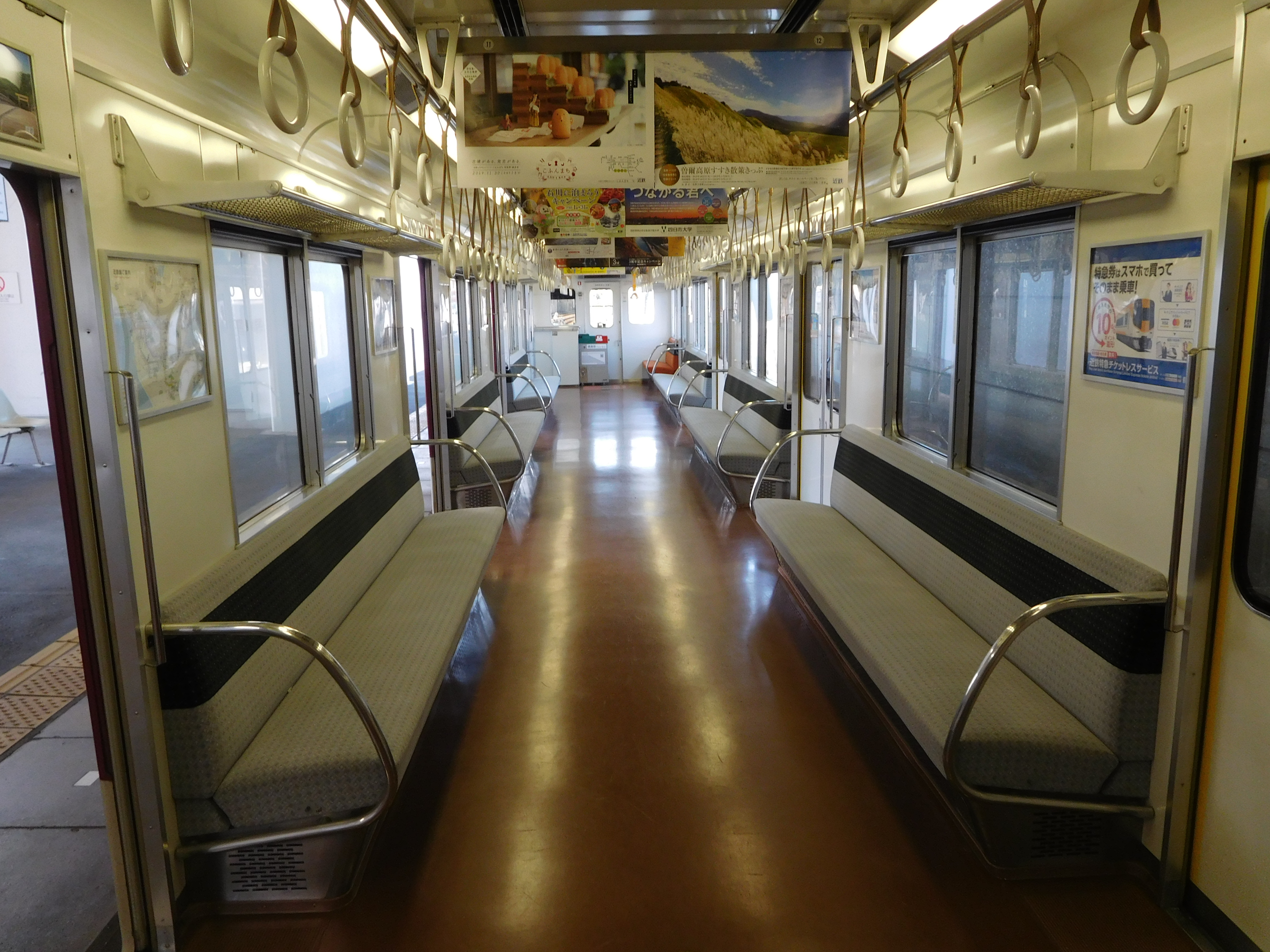 Interior of Kintetsu 1201 series trains. It was taken at Ugata station, Shima city, Mie prefecture, Japan.